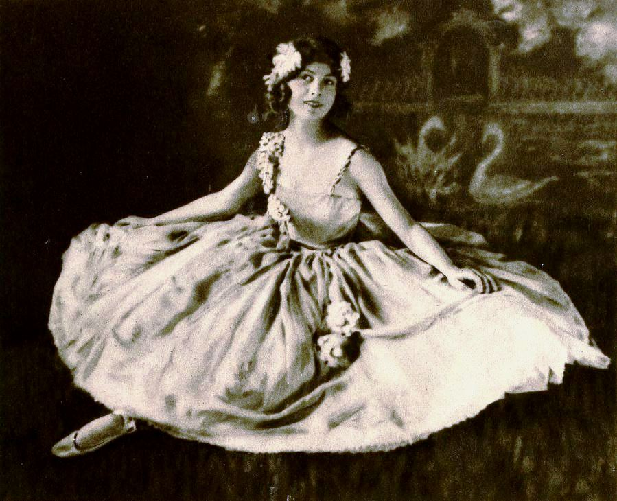 Anna Ludmilla on page 21 of the December 1922 Shadowland. She has danced with the Pavley-Oukrainsky Ballet and in New York, as well as in her home town of Chicago.